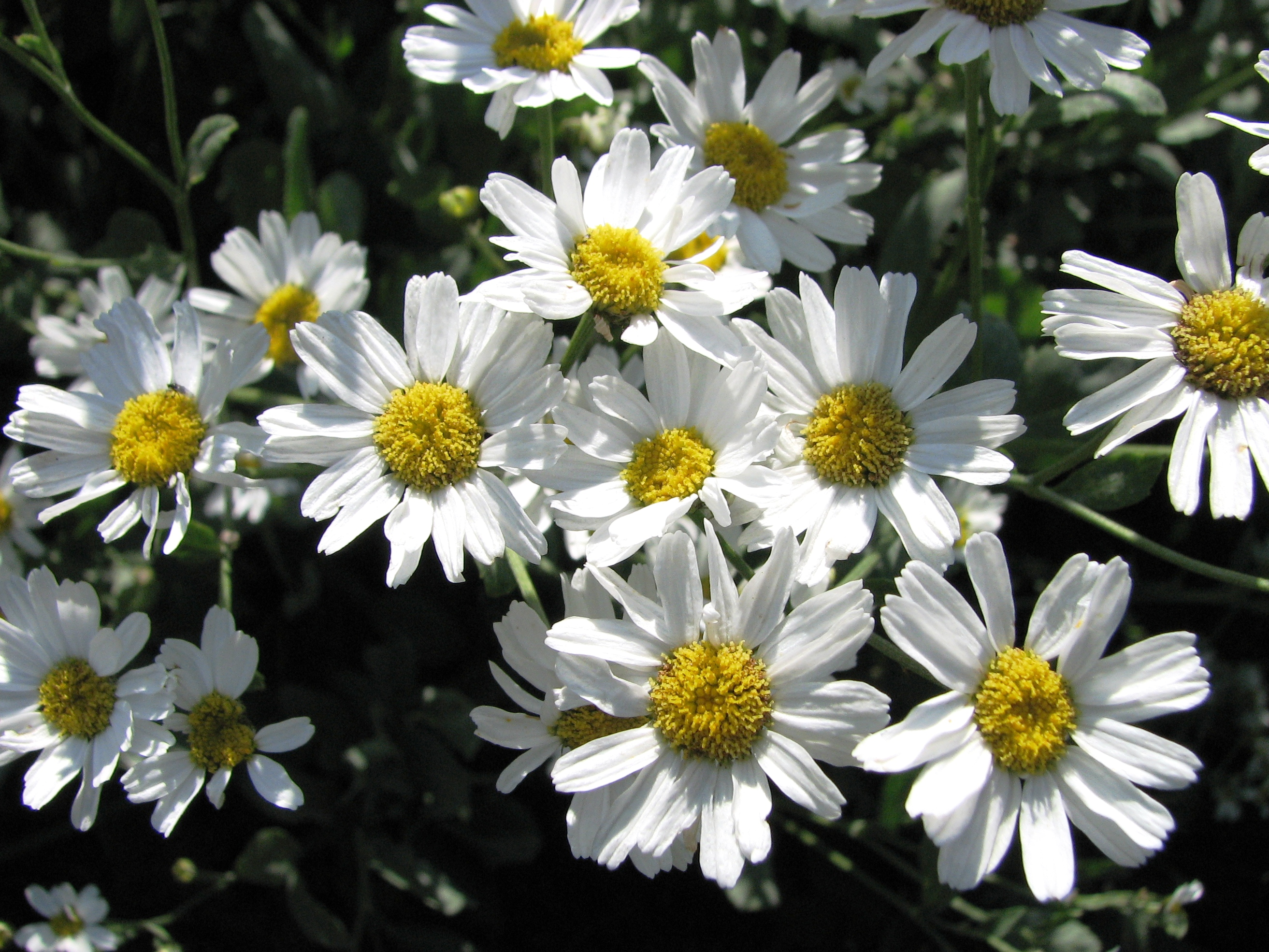 Tanacetum balsamita. From the collection of the Main Botanical Garden of Academy of Sciences in Moscow (perennials plot).